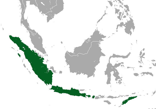 Indonesian Short-nosed Fruit Bat (Cynopterus titthaecheilus) range